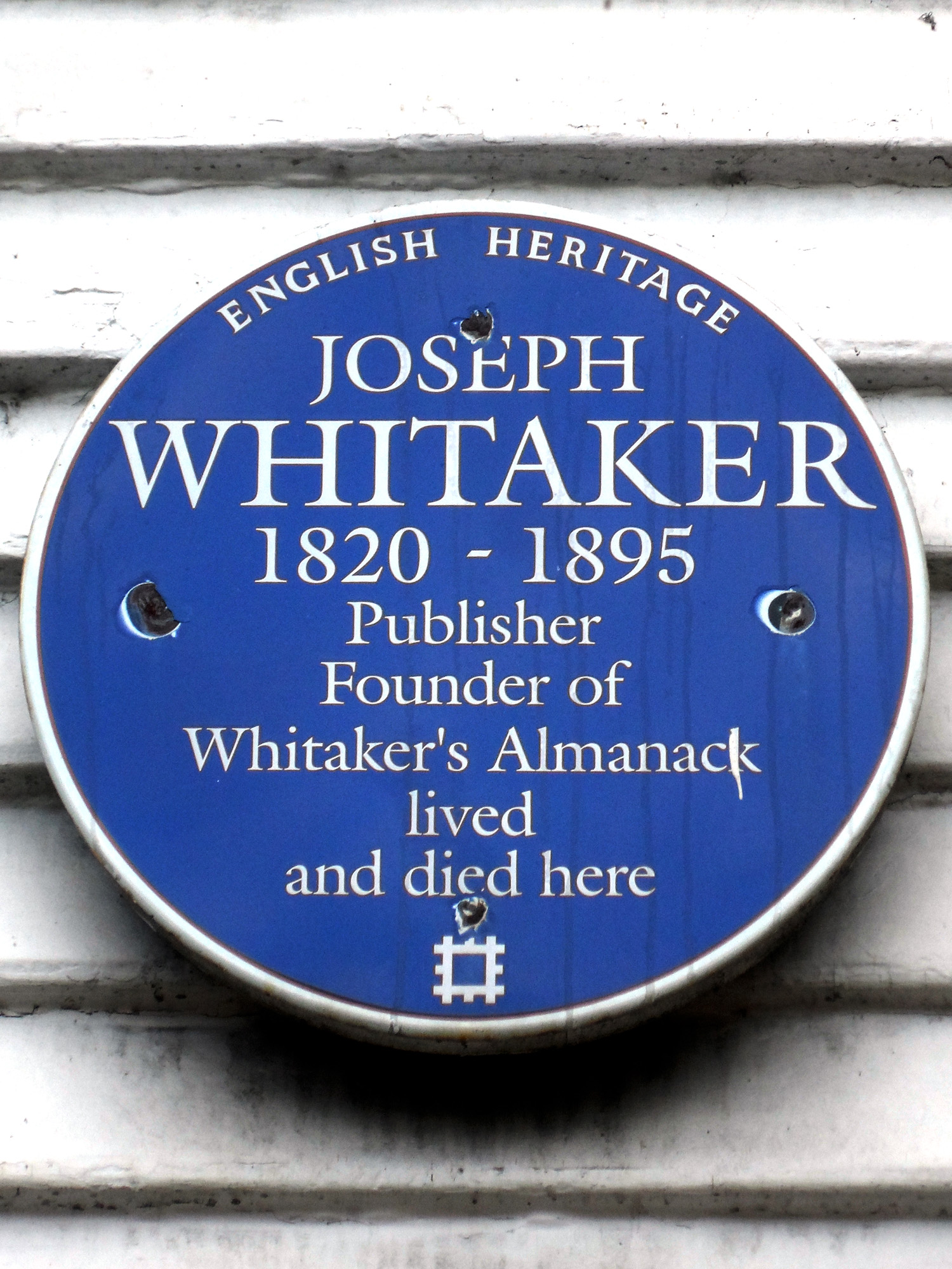 Blue plaque erected in 1998 by English Heritage at White Lodge, 68 Silver Street, , Enfield EN1 3EW, London Borough of Enfield